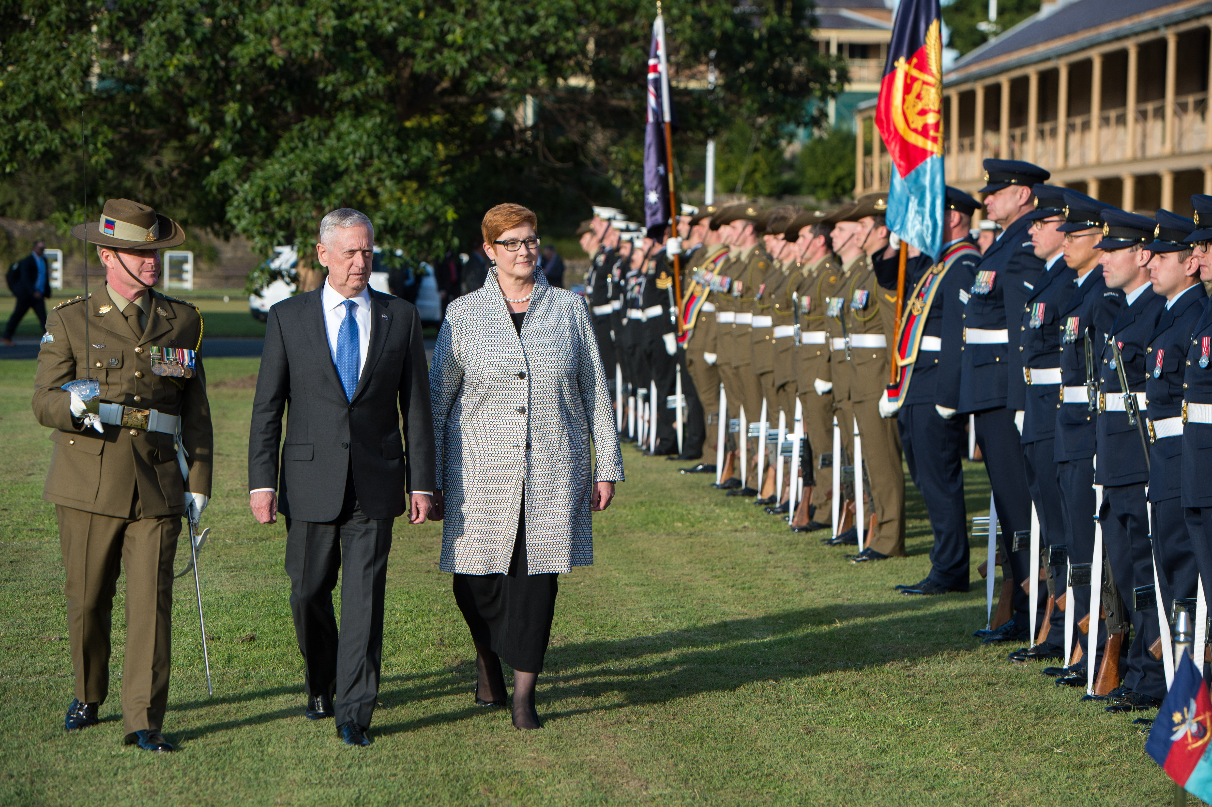 Secretary of Defense Jim Mattis and Australia’s Minister for Defence Marise Payne visit the Victoria Barracks in Sydney, Australia, June 5, 2017. (DOD photo by U.S. Air Force Staff Sgt. Jette Carr)